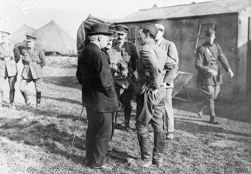 The Battle of the Somme, July-november 1916 British Prime Minister Herbert Asquith talking to an airman who has just brought down a German plane. Royal Flying Corps Headquarters at Franvillers, 7 August 1916.